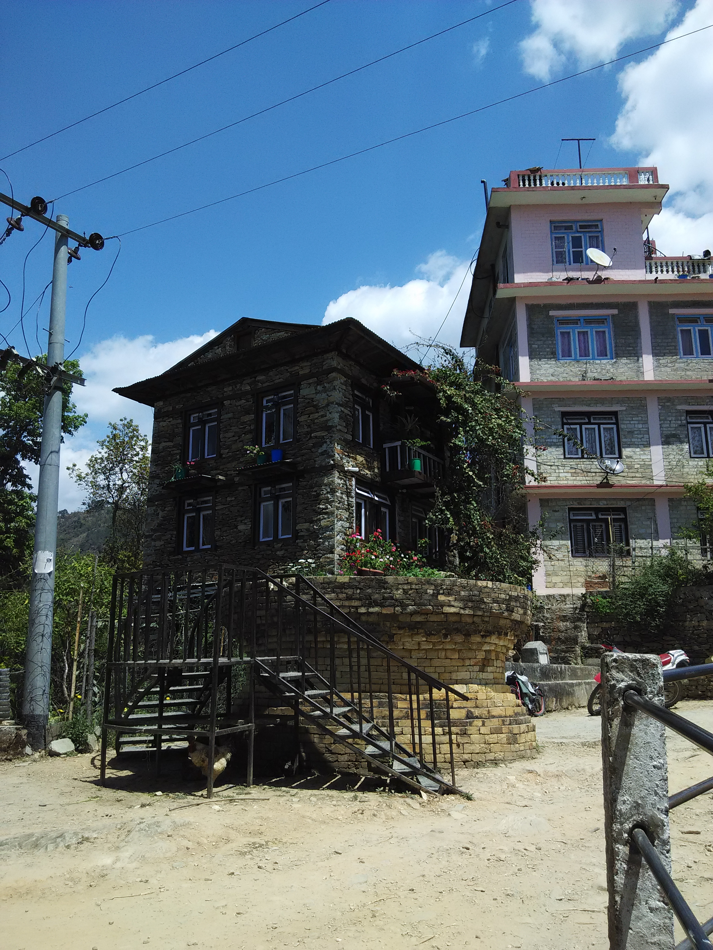 Okhal at Okhaldunga